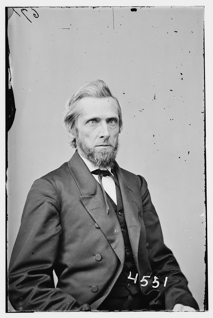 Kentucky Congressman William H. Randall